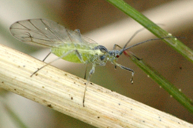 Picture taken in Commanster, Belgian High Ardennes . Species: Myzus persicae